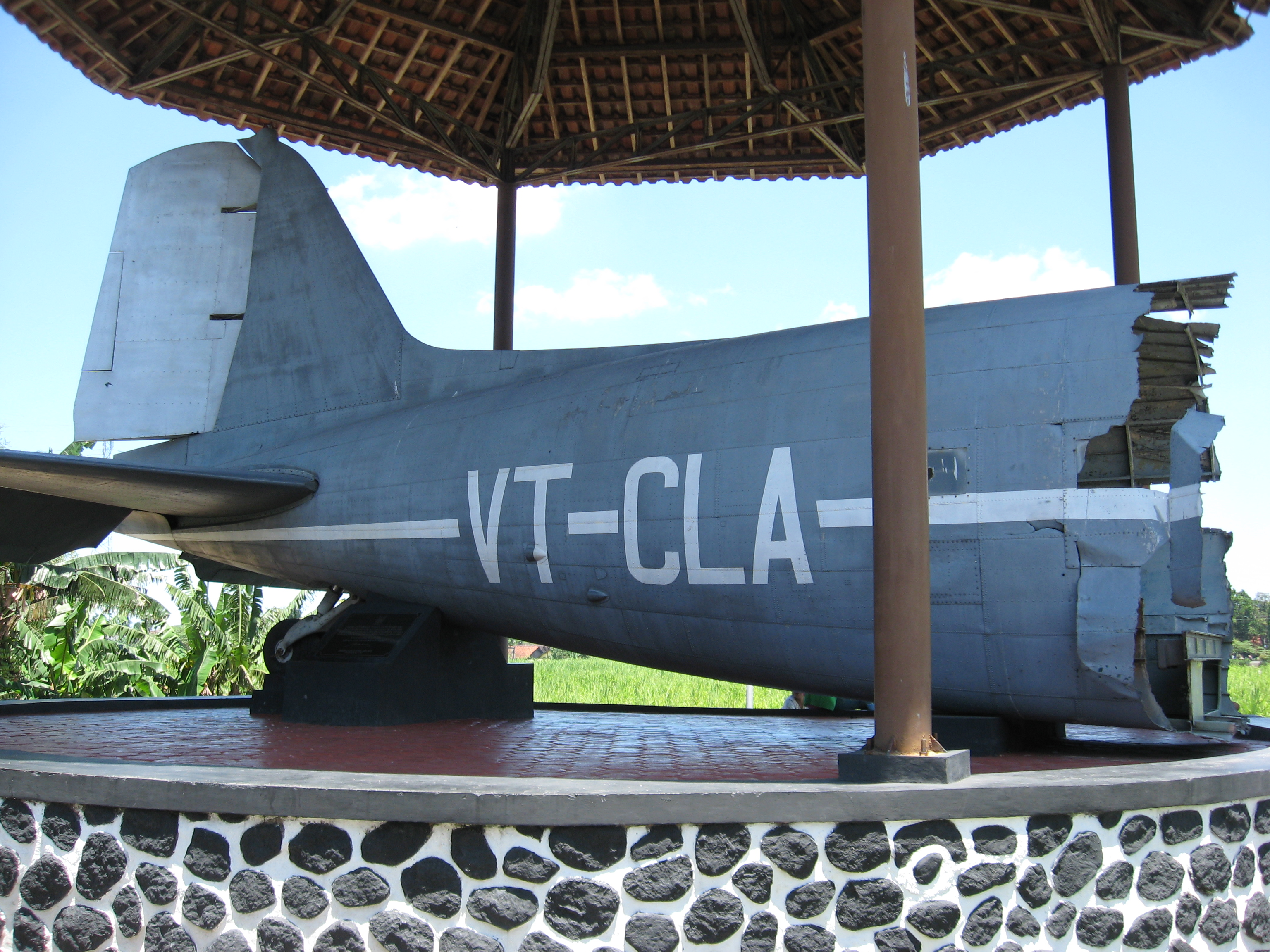 Replica of the tail of Dakota VT-CLA, a flight which was shot down over Yogyakarta. The tail was all that remained of the aircraft.